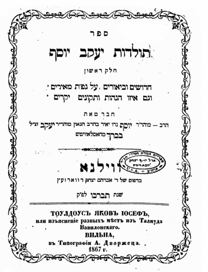 Title page of Toldos Yaakov Yosef 1867 edition.